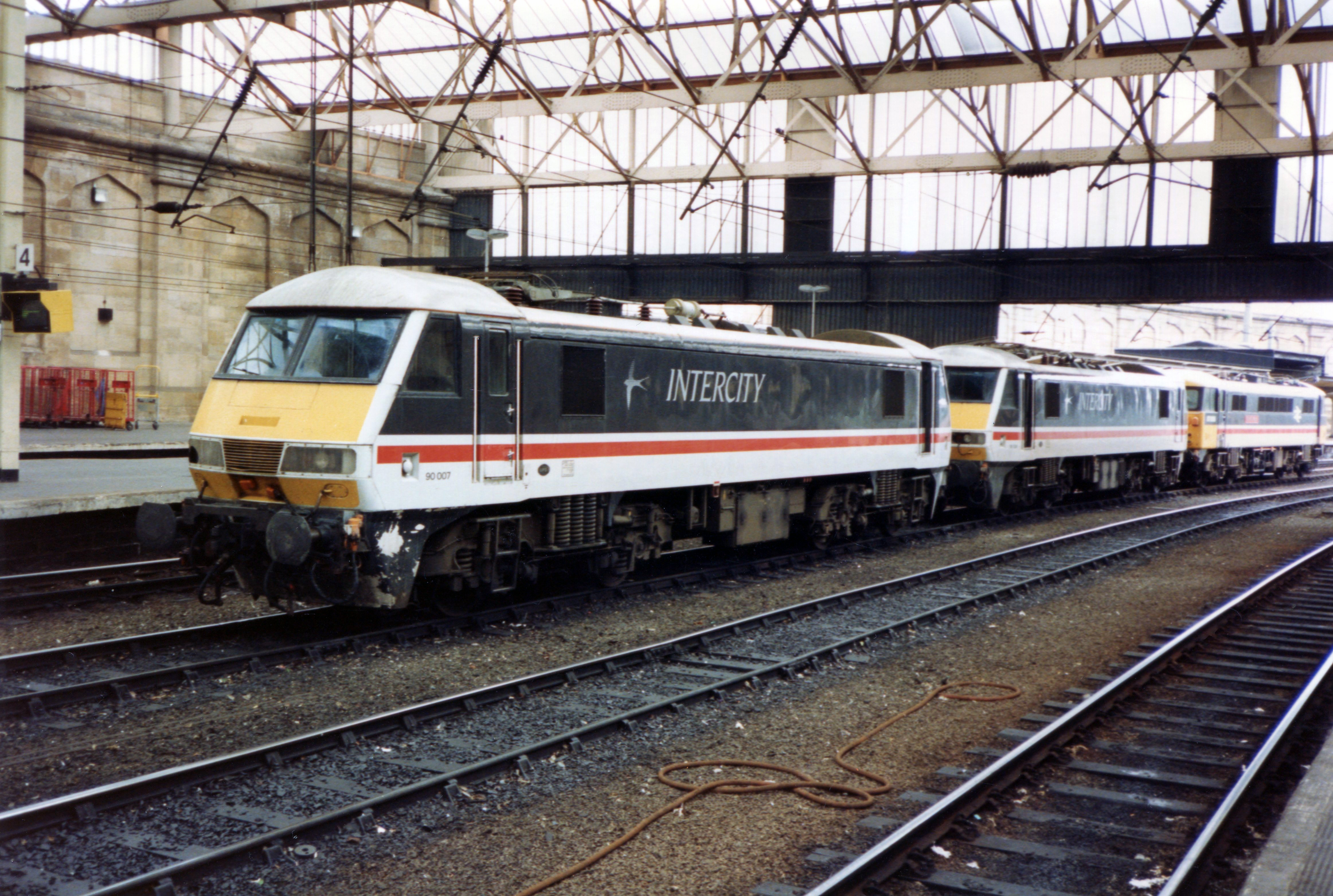 90007, 90015 & 87006 - Carlisle